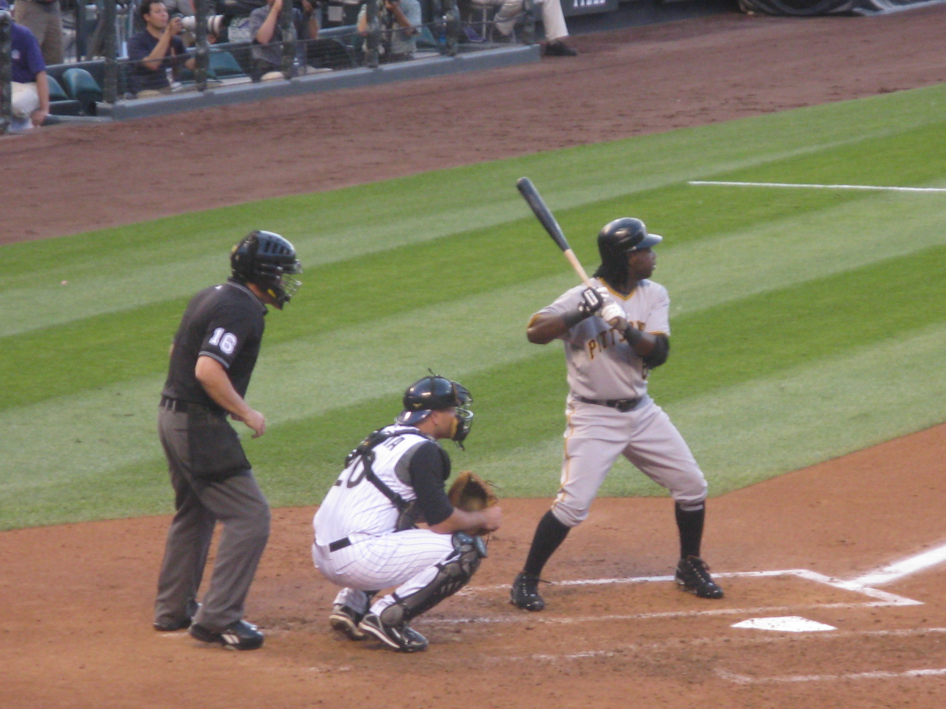 Lastings Milledge stepping into the box for the Pittsburgh Pirates